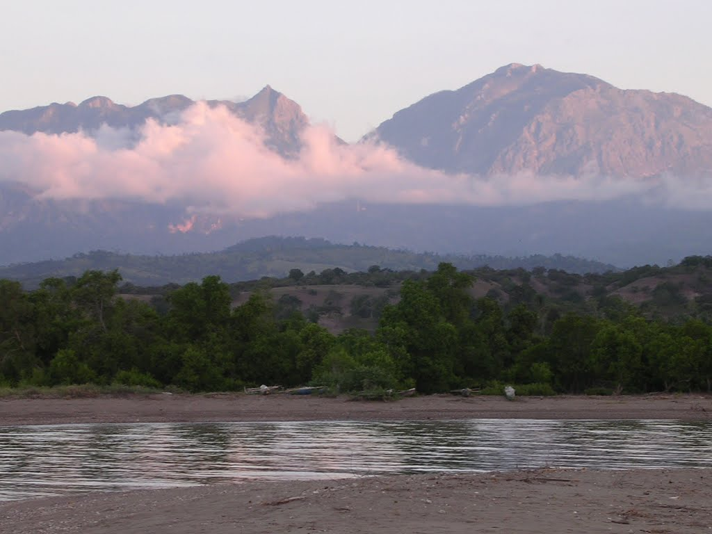 View across the Seical River to Mt Matebian in background, Baucau